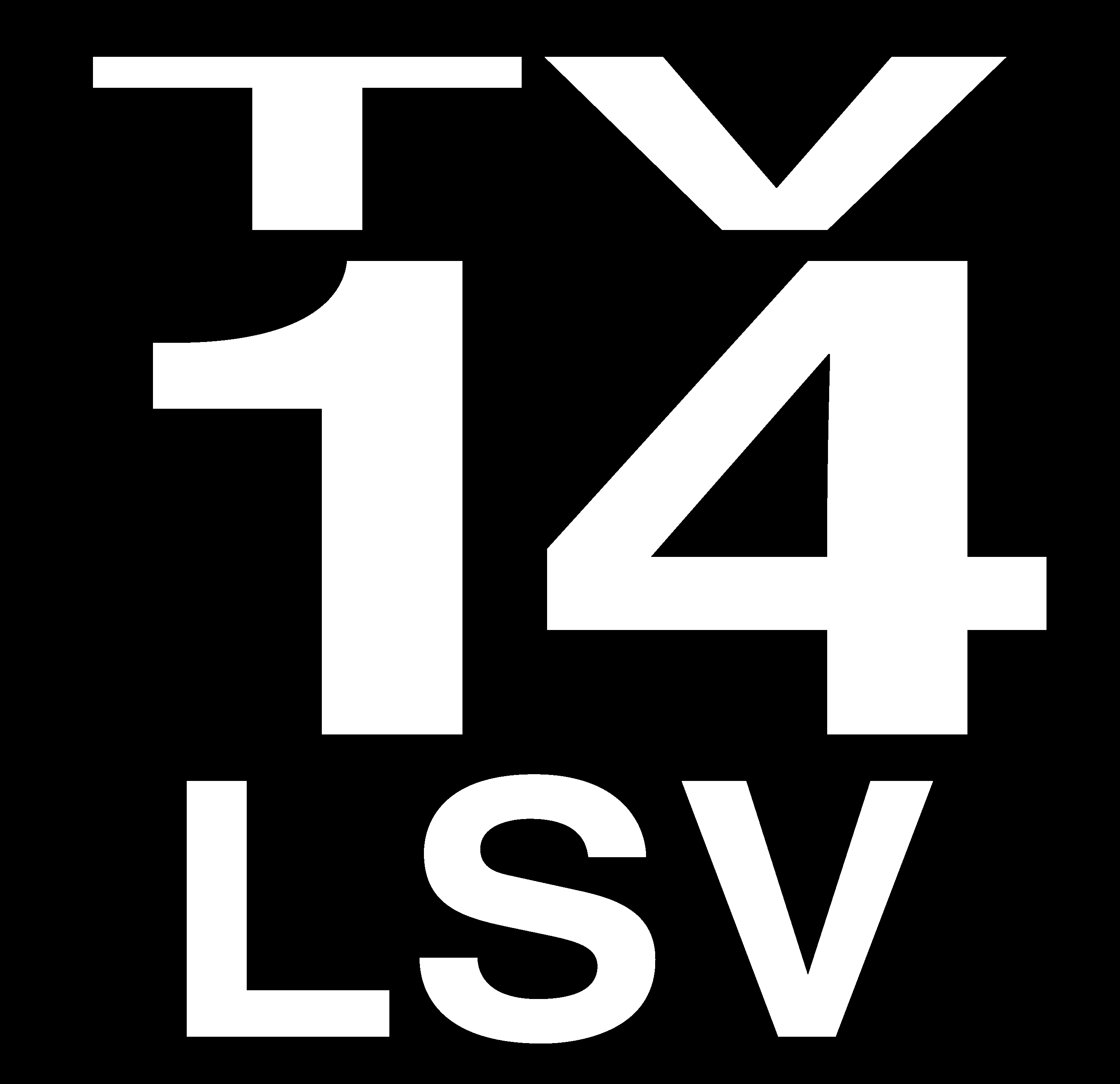 An icon denoting that a TV show is rated TV-14-LSV by the FCC in the United States. Programs with this rating contain some material that many parents would find unsuitable for children under 14 years of age, namely through the use of strong coarse language (L), sexual content (S) and intense violence (V).